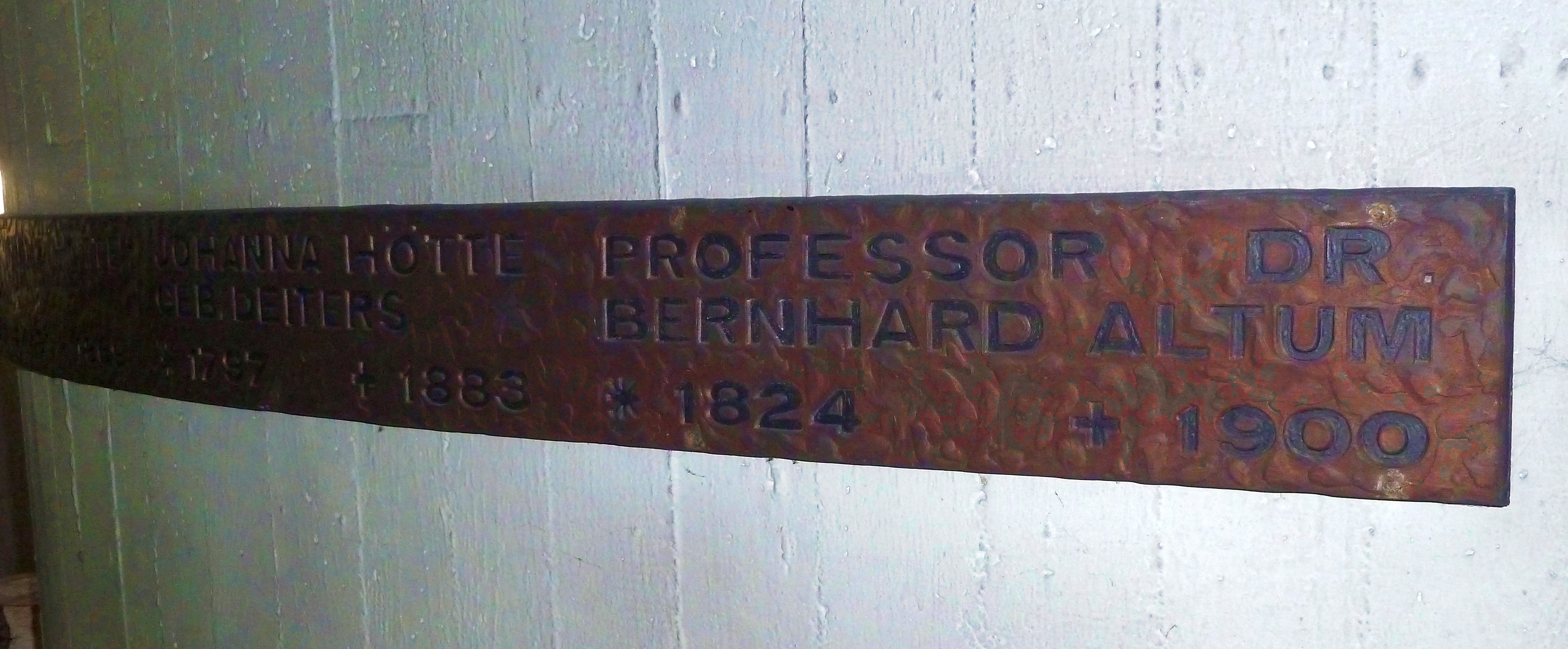 Grave plaque of Prof. Dr. Bernard Altum in the Chapel of Haus Heidhorn